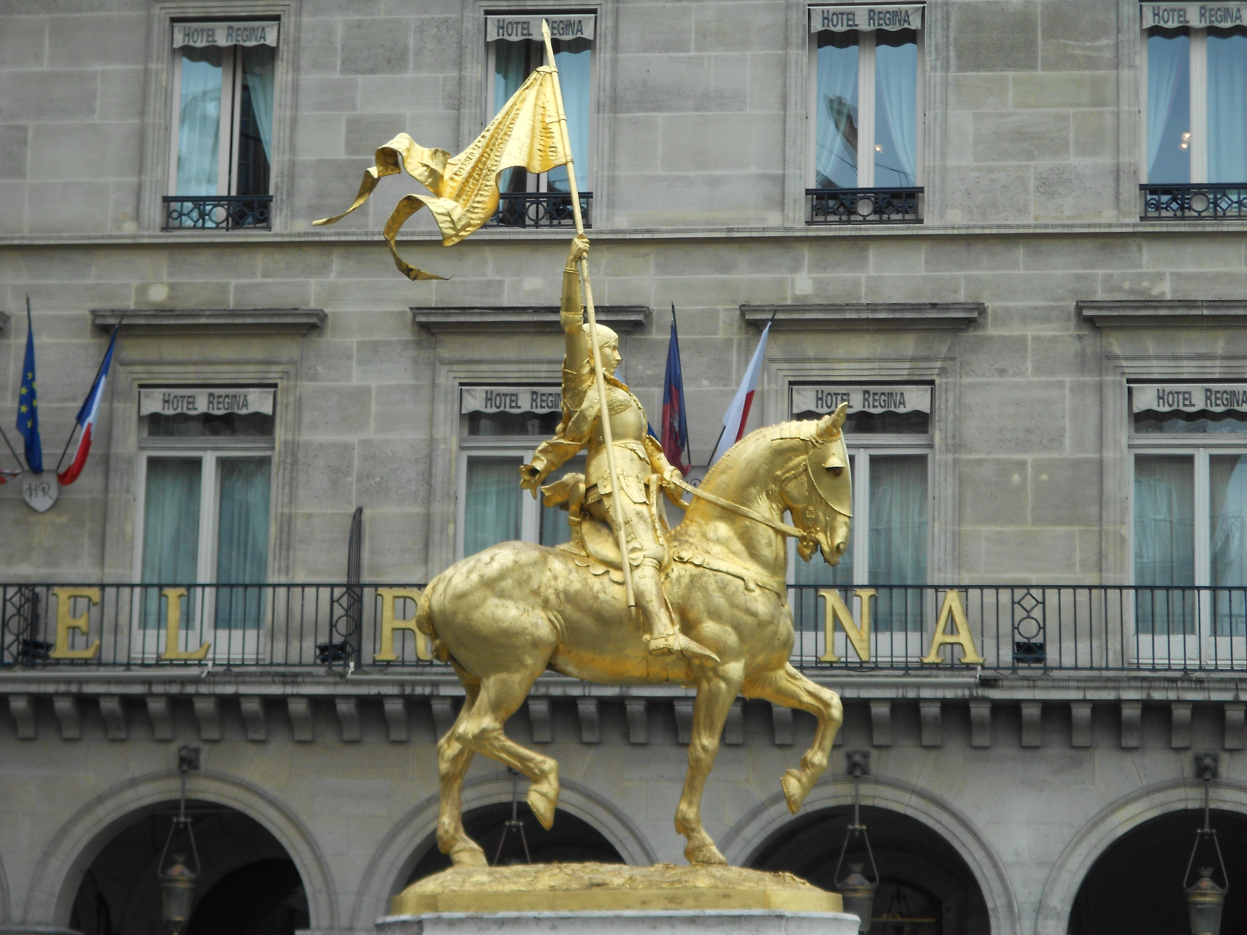 Statue of Jeanne d'Arc near the Jardin des Tuileries in Paris, France.